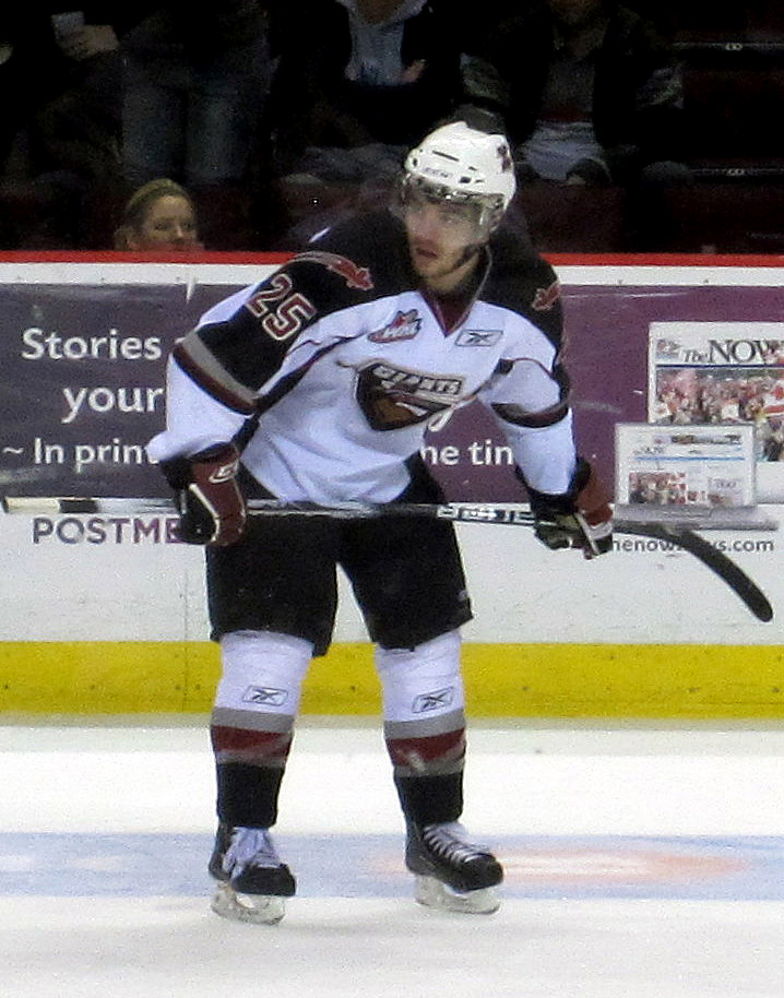 Vancouver Giants forward Jordan Martinook during a game against the Chilliwack Bruins on March 9, 2011.